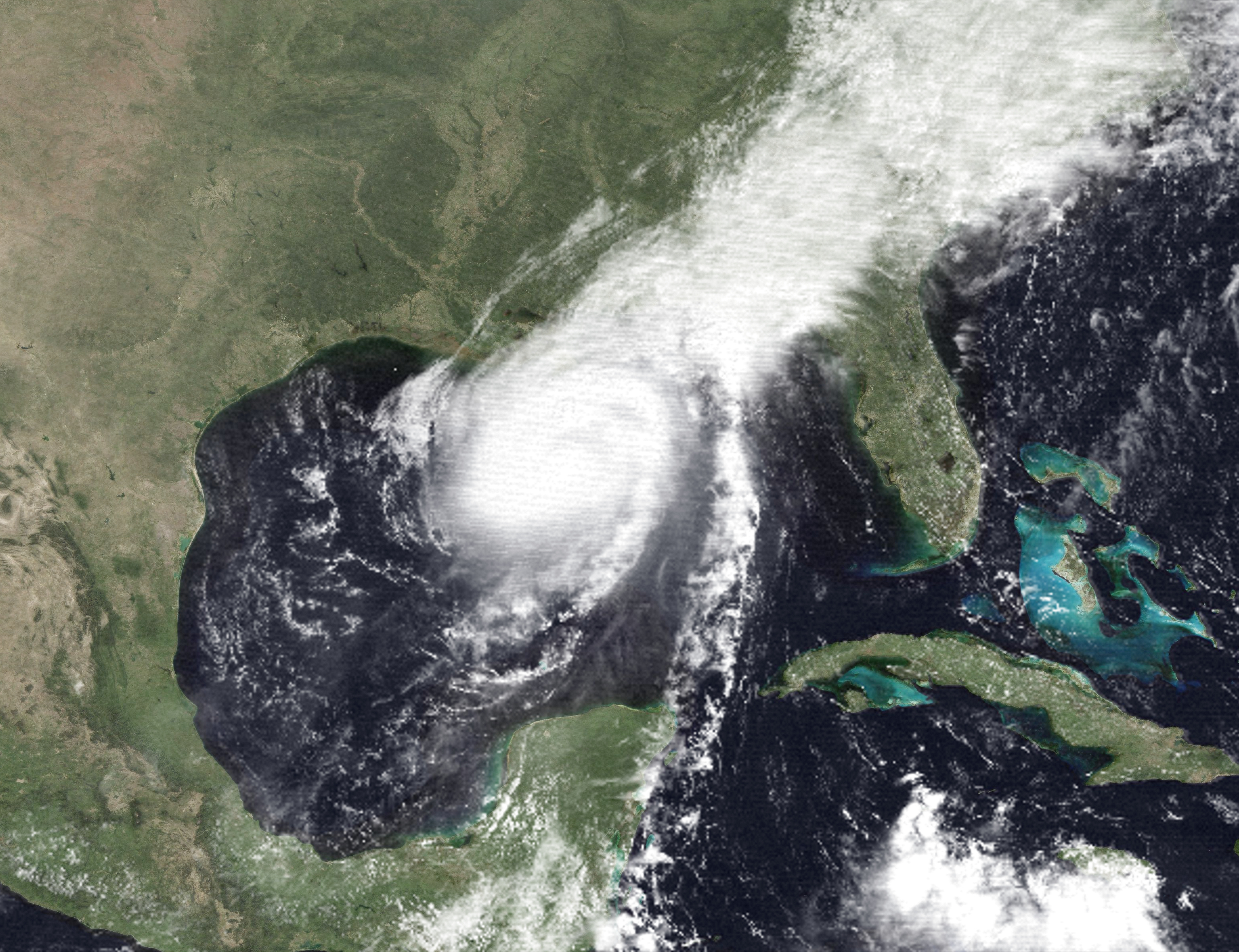 Tropical Storm Florence nearing landfall at September 9th, 1988.